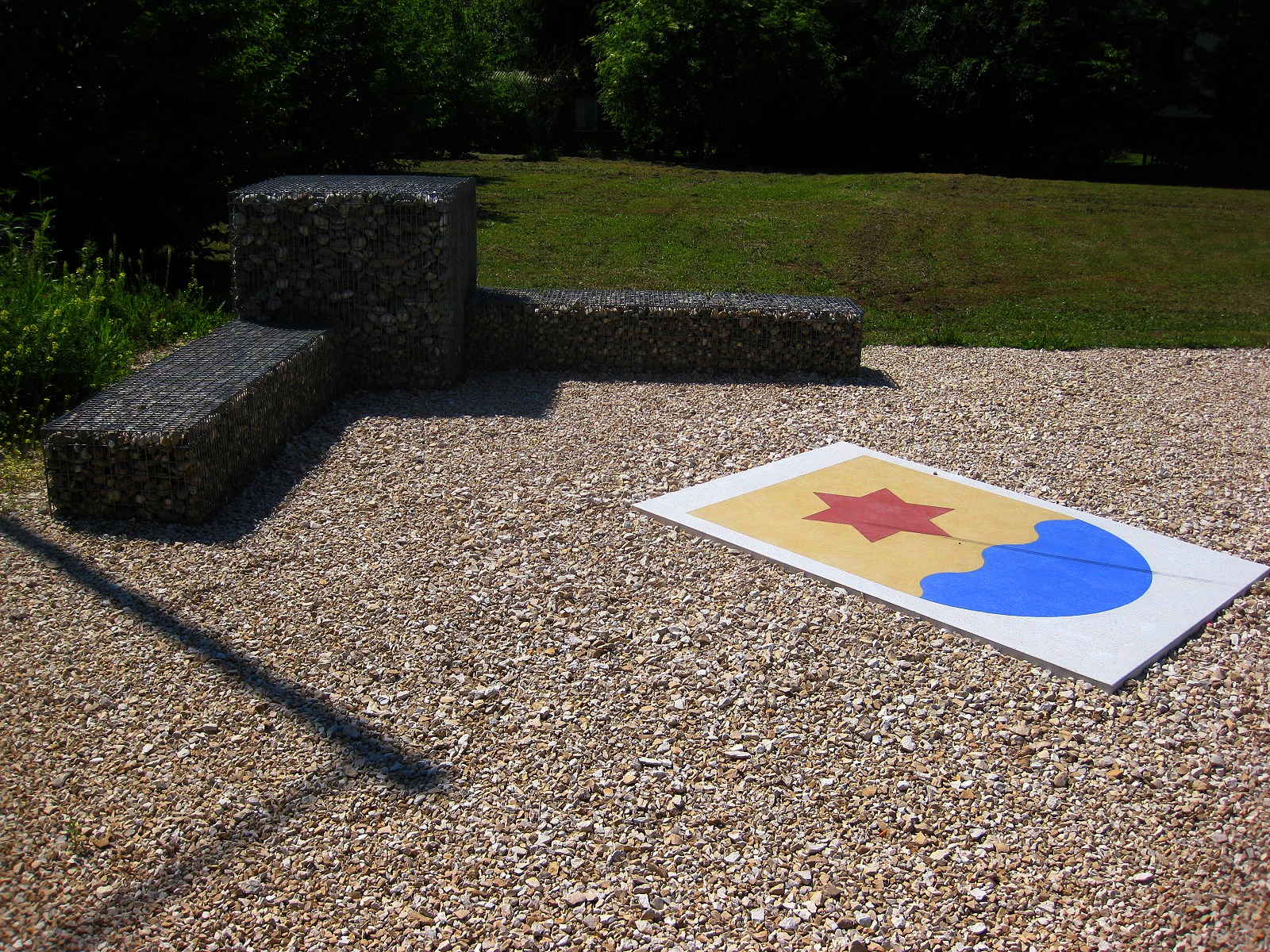 The coat of arms of Dettensee used as a decoration for a public park bench group in the centre of the village.